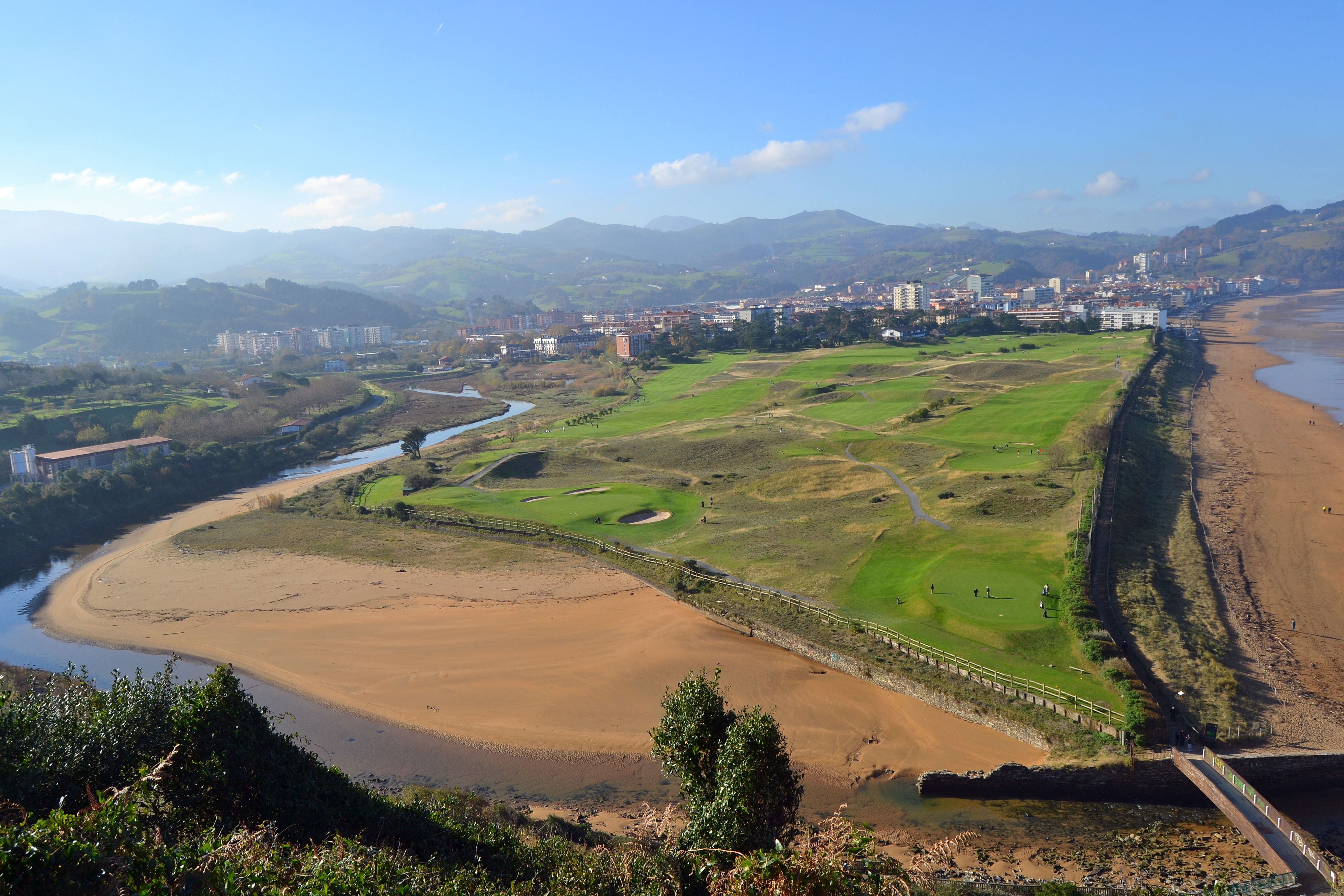 Iñurritza. Zarautz, Gipuzkoa. Basque Country.